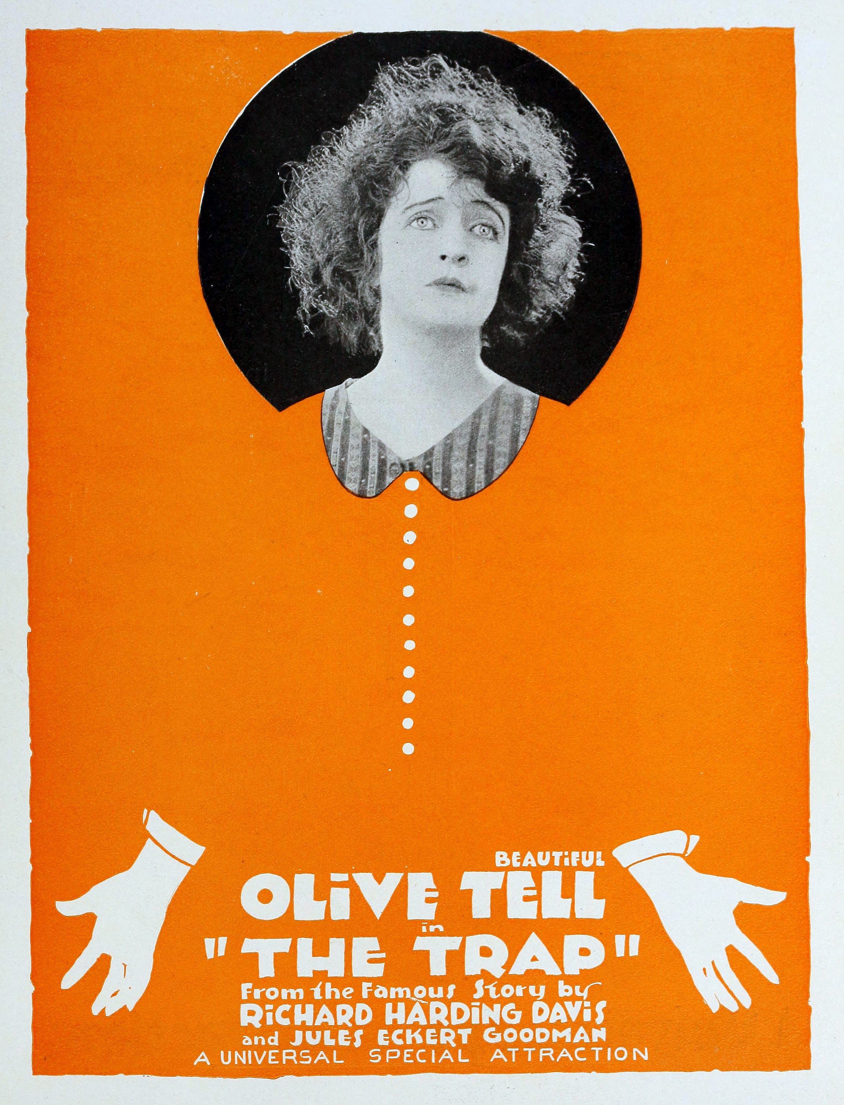 Ad for the American film The Trap (1919) with Olive Tell, on page 1633 of the August 23, 1919 Motion Picture News.